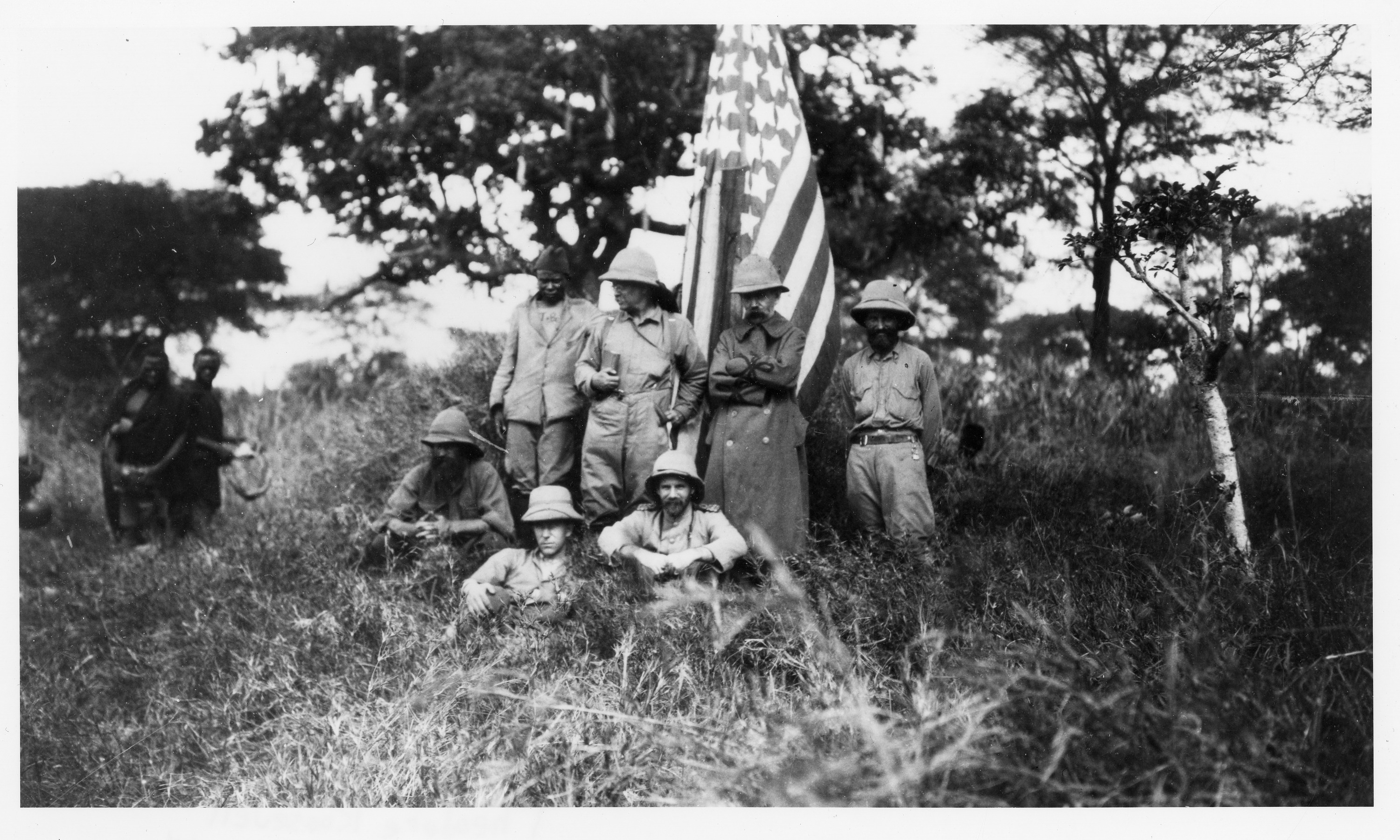 Former President Theodore Roosevelt (1858-1919) and other members of his expedition party from the Smithsonian Roosevelt African Expedition stand next to an American flag. Roosevelt is standing to the left of the flag with his head to the side. Other men in the image include Kermit Roosevelt, Edgar Alexander Mearns, and John Alden Loring. On this trip, Roosevelt collected natural history specimens for the United States National Museum (now National Museum of Natural History) and live animals for the National Zoological Park Full description